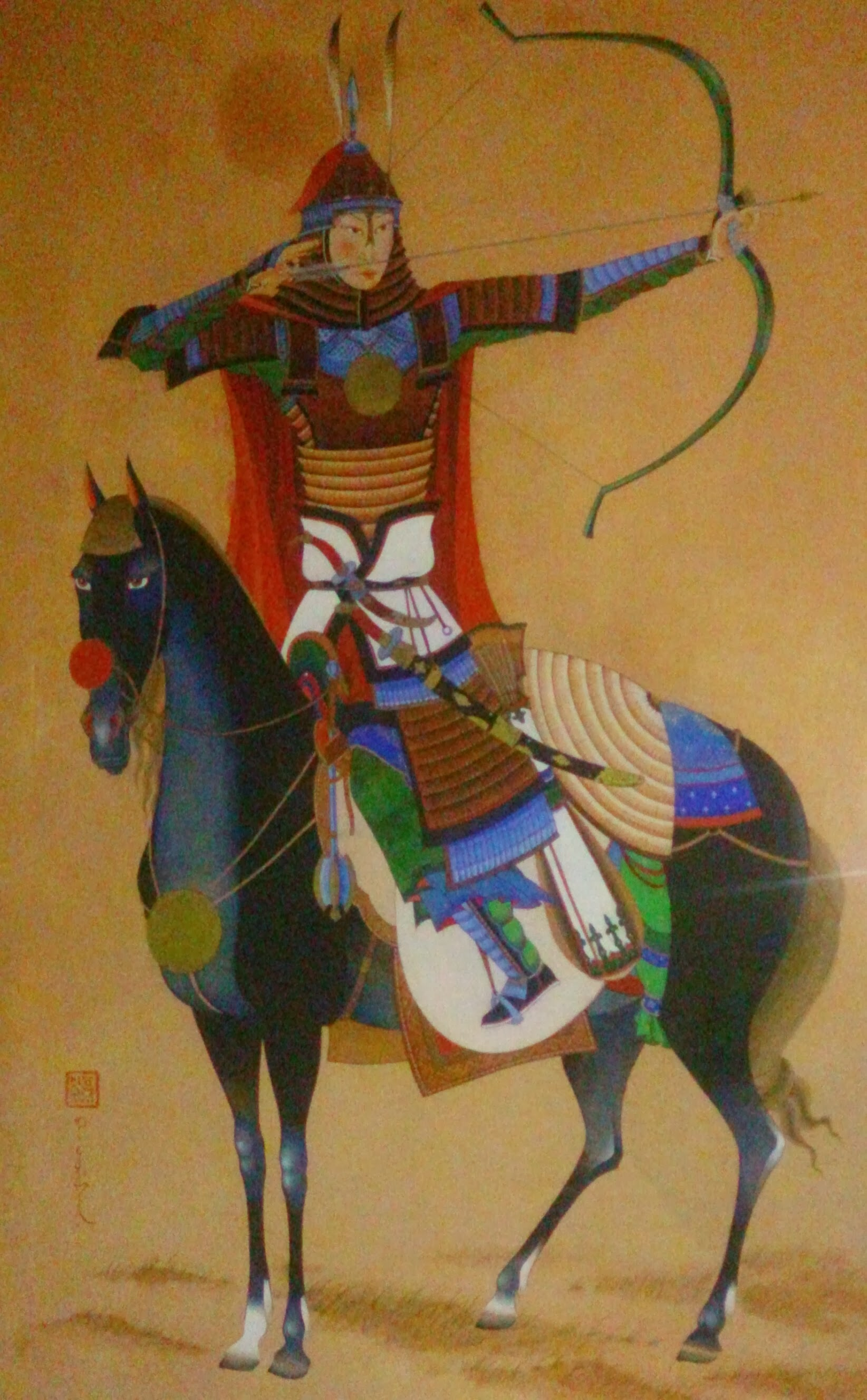 Private Collection